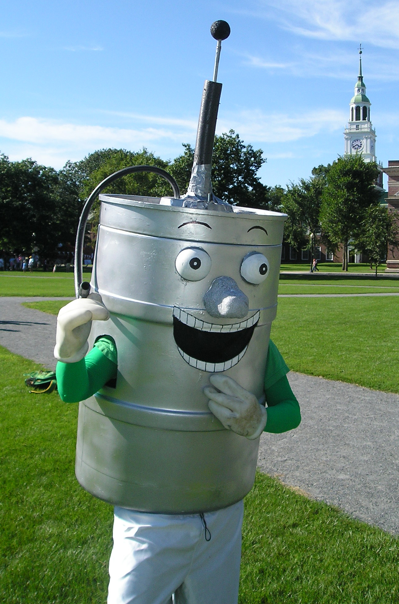 Keggy the Keg. I (Dylan) took this photo and hereby release it into the whatever. And if I do say so myself, it's a pretty sweet photo.